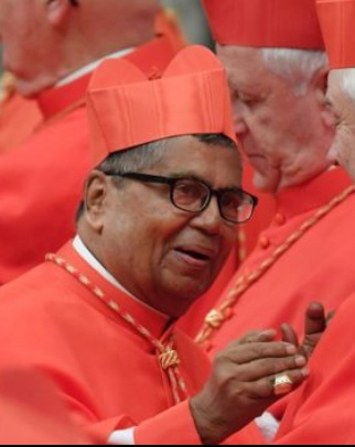 Cardinal Anthony Soter Fernandez Archbishop Emeritus of Kuala Lumpur is created a cardinal last November 19, 2016 and given the titular church of San Alberto Magno.